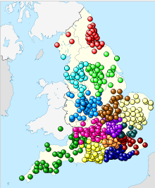 This image is a screenshot of an image already in place on the English football league system page. The original image was a location map using file:England location map.svg and the GPS locations of every single English Football club at levels 9 and 10 (this work was originally done by myself). The problem with it is that 1) it was for the 2011-12 season, 2) updating it would be tiresome, and 3) the sheer amount of written wiki code on the page was huge. Screenshooting the image is a much simpler solution.